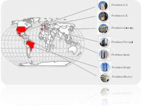 Produban in the world